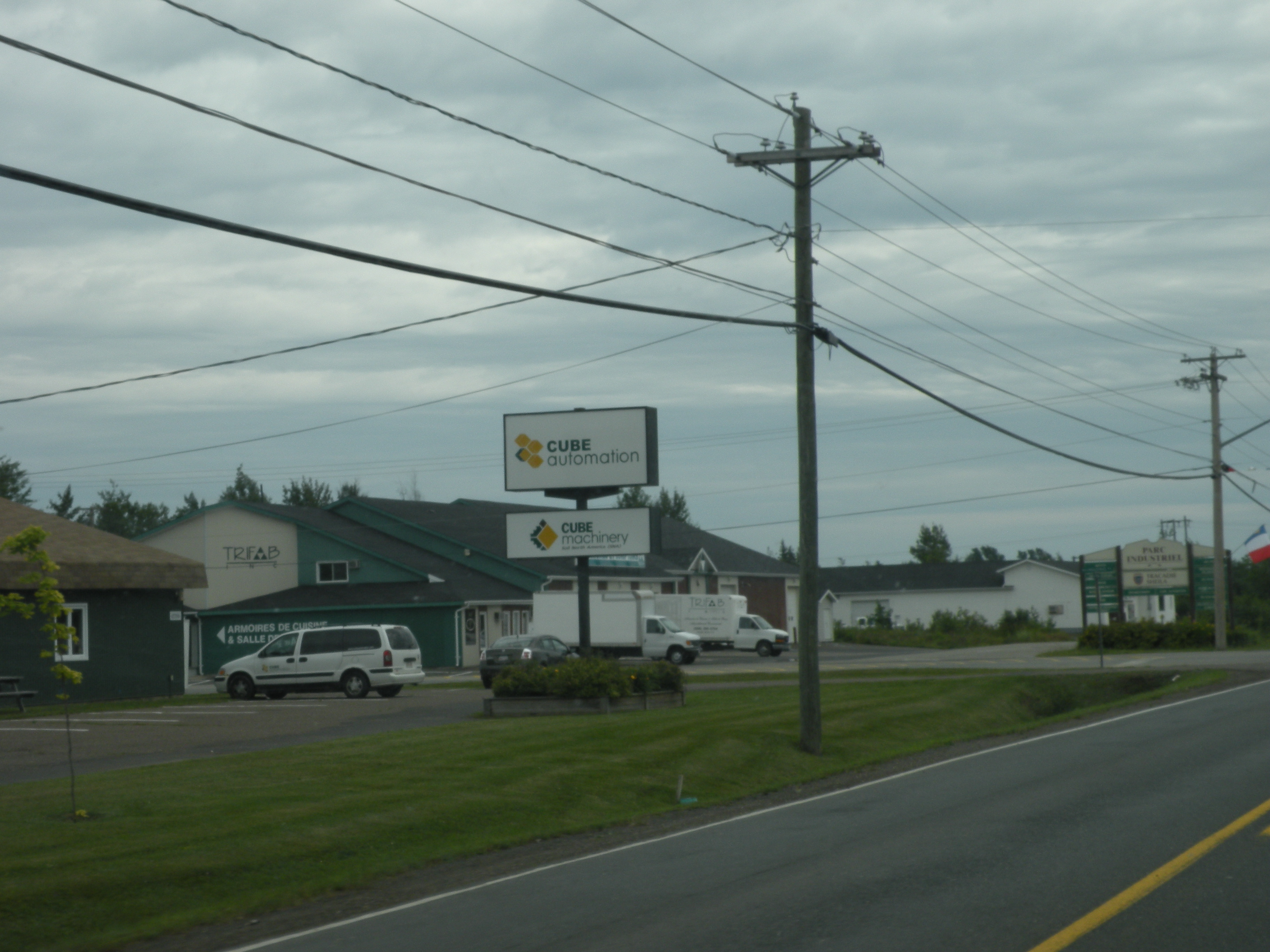 Tracadie-Sheila, New Brunswick, Canada.